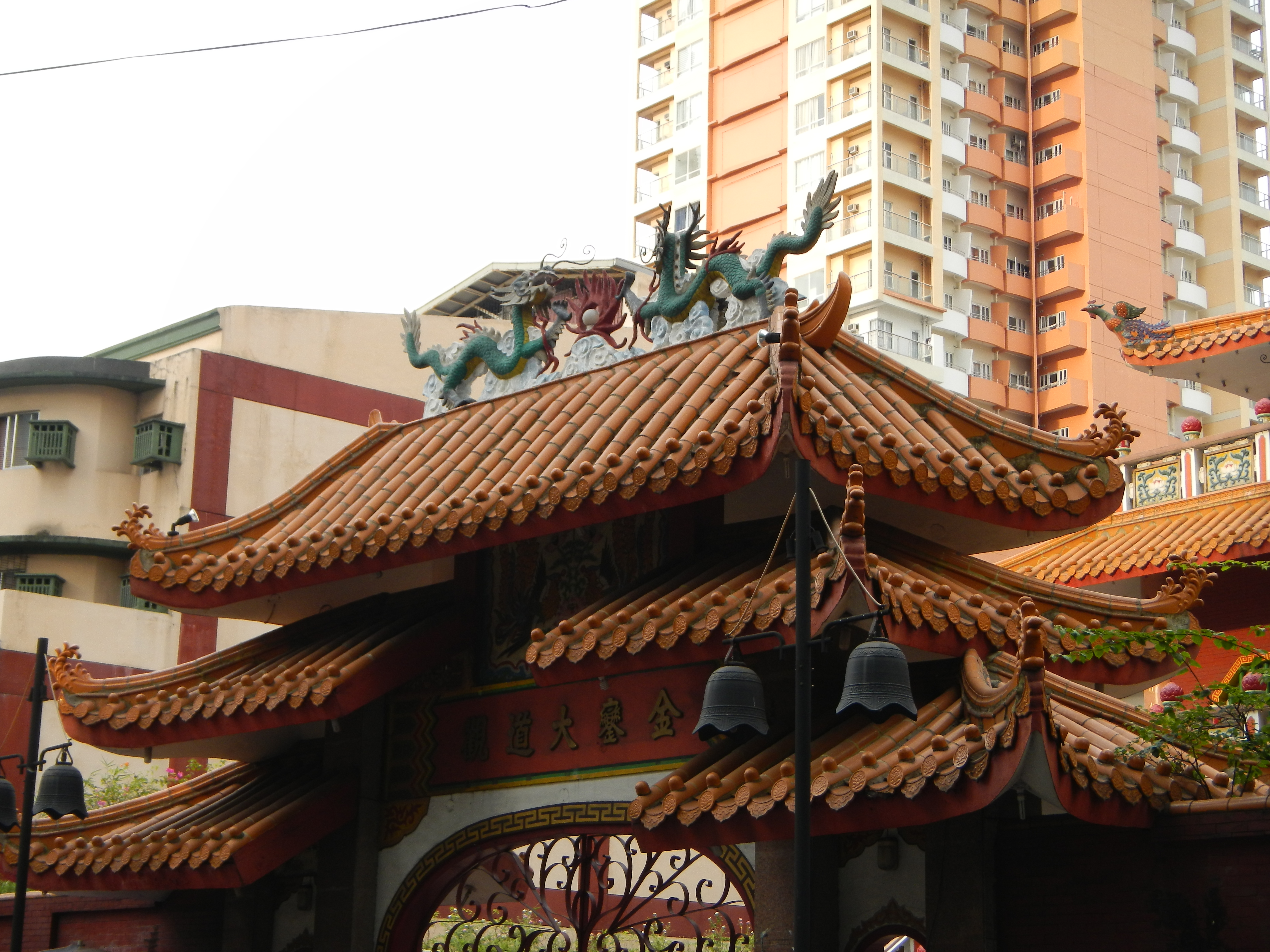 Upload Wizard photos of - a) Kim Luan Temple in front of Pan Pacific Hotel in Adriatico Street [1] connecting Ermita and Malate[2] districts in Manila, Philippines and b) Adriatico Square, The Pan Pacific Manila - Pan Pacific Hotels and Resorts [3] [4] M. Adriatico Adriatico Street[5] (Calle Dakota) Malate List of eponymous streets in Manila [6] corner Gen. Malvar Streets, Malate , Manila City 1004 Philippines Casino Filipino, Ermita-Malate, List of casinos in the Philippines [7] Philippine Amusement and Gaming Corporation[8].